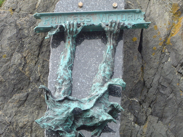 Princess Victoria roro ferry went down during the North Sea flood of 1953. On the 31st Jauary in the year of '53 when the Princess Victoria left Stranraer to cross the Irish Sea a northerly gale was blowing and the sea was mountains high when the Captain sent an S.O.S. Portpatricks tug stood by... unknown.